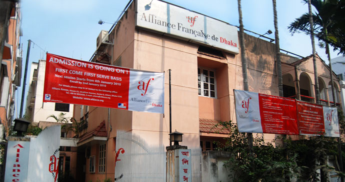 Photo by Shahriar Rashed for AFD/2009